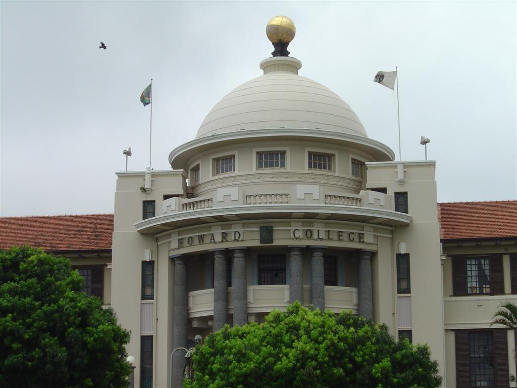 The Howard College building on the Howard College campus at the UKZN